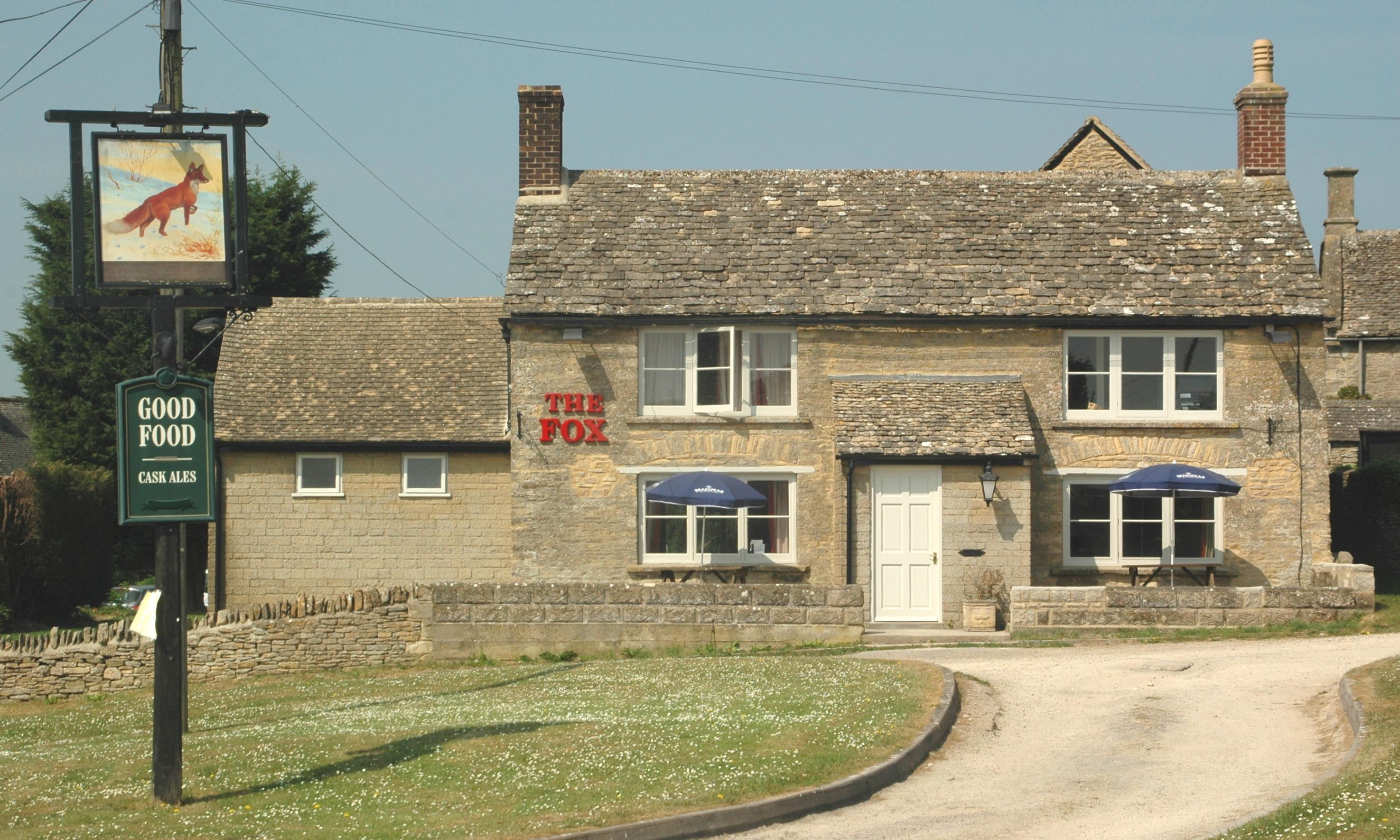 The Fox public house, Leafield, Oxfordshire, seen from east-southeast